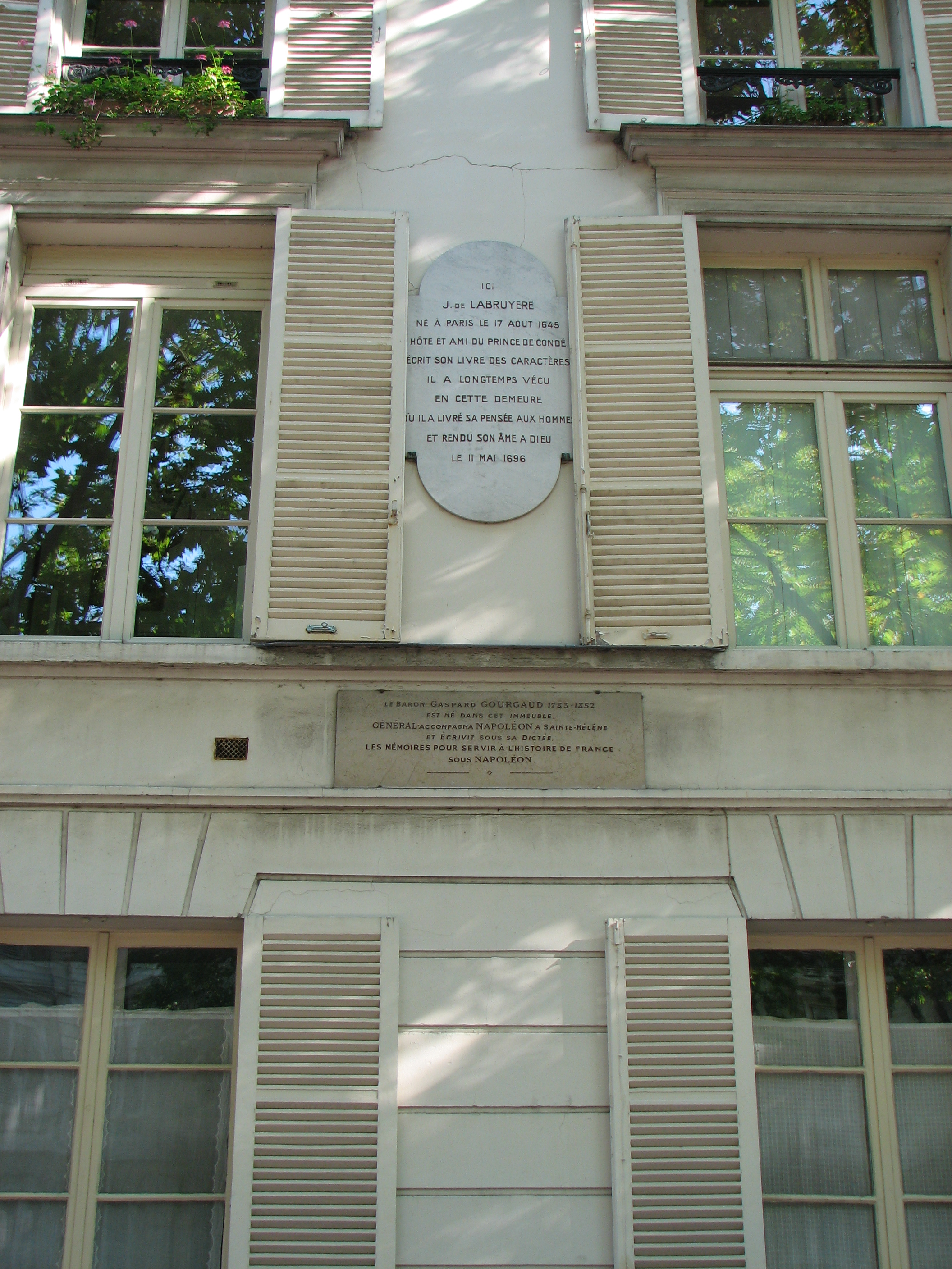 Plaques on Hôtel de Condé, 22 rue des Réservoirs in Versailles (France), about the moralist Jean de La Bruyère (1645-1696) who lived here and General Gaspard Gourgaud (1783-1852) who was born here.